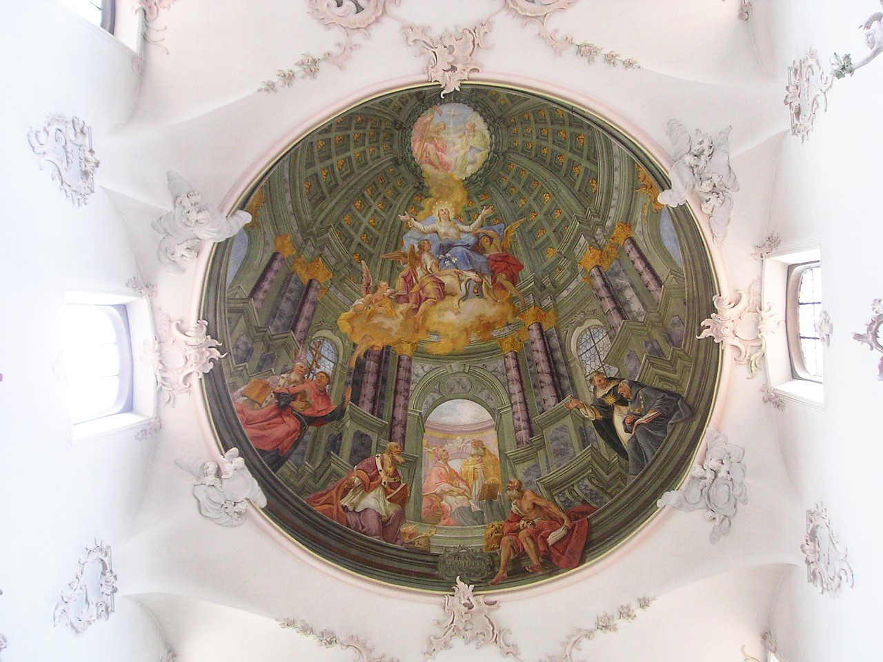 Franz Ludwig Hermann, Ceiling fresco in the Franciscan church of Überlingen (Germany), 1753. Fake cupola, Virgin Mary and angels with the four church fathers St. Ambrose, St. Augustine, St. Jerome, Gregor I.